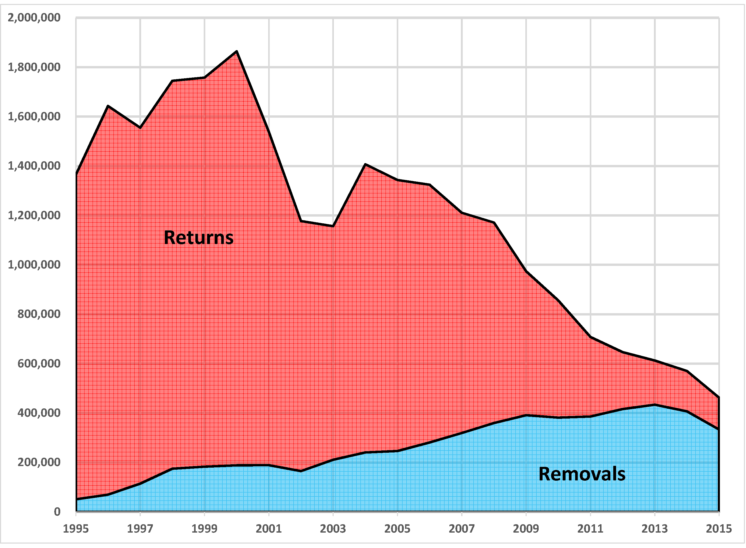 United States immigration enforcement actions, 1995-2015